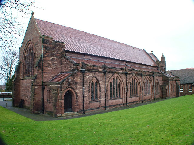 St Stephen's parish church, Prenton Lane, Prenton, Wirral, Merseyside, seen from the south